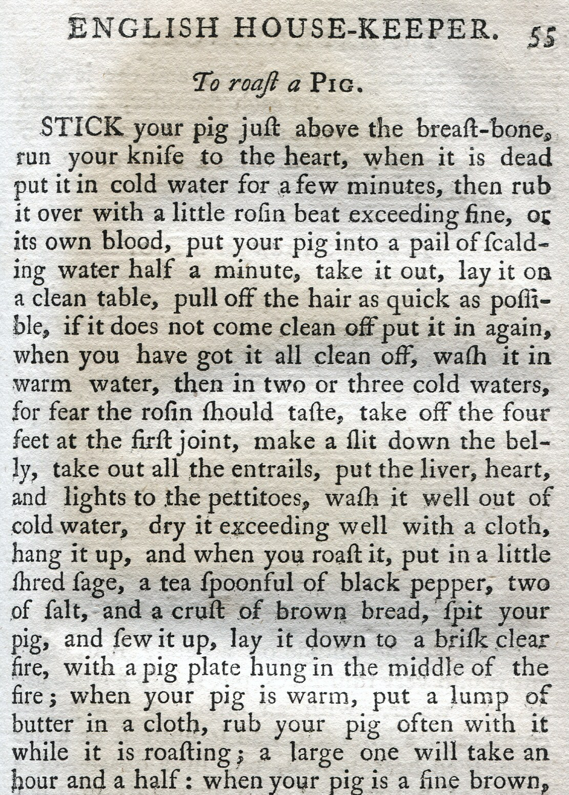 Start of recipe "To roast a PIG" from Elizabeth Raffald's The Experienced English Housekeeper, 4th Edition, 1775.